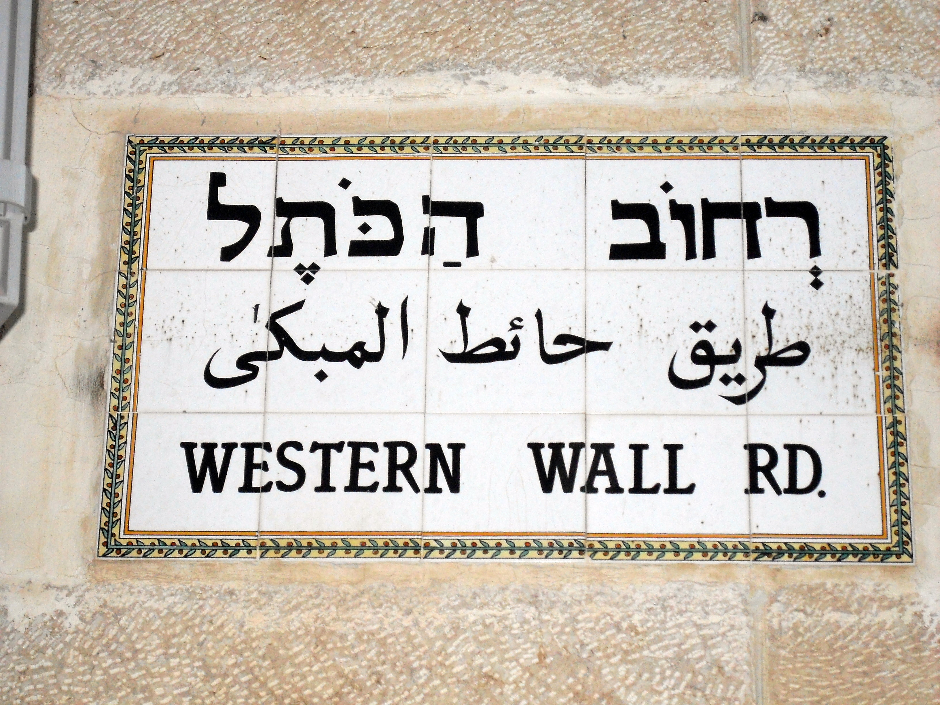 Old Jerusalem Western Wall Road sign